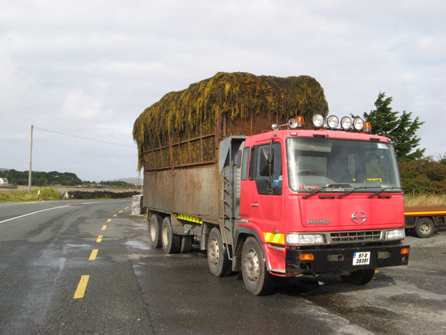 Seaweed harvest. I was lucky to catch this image of a lorry loaded with seaweed destined for the factory at Kilkieran 1442400. The lorry had parked up while the driver was ferried back to collect the companion wagon with its hydraulic grab used to pick up the baled seaweed (Knotted wrack - Ascophyllum nodosum) from collecting points such as 1432632. Several tens of thousands of tons of seaweed are collected annually, but the low density of the wet seaweed means that a high cage is added to the tipper body to ensure an economic payload. The lorry is a Hino, built in Japan.